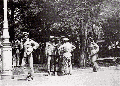 Siamese Soldier, Revolution 1932, Bangkok